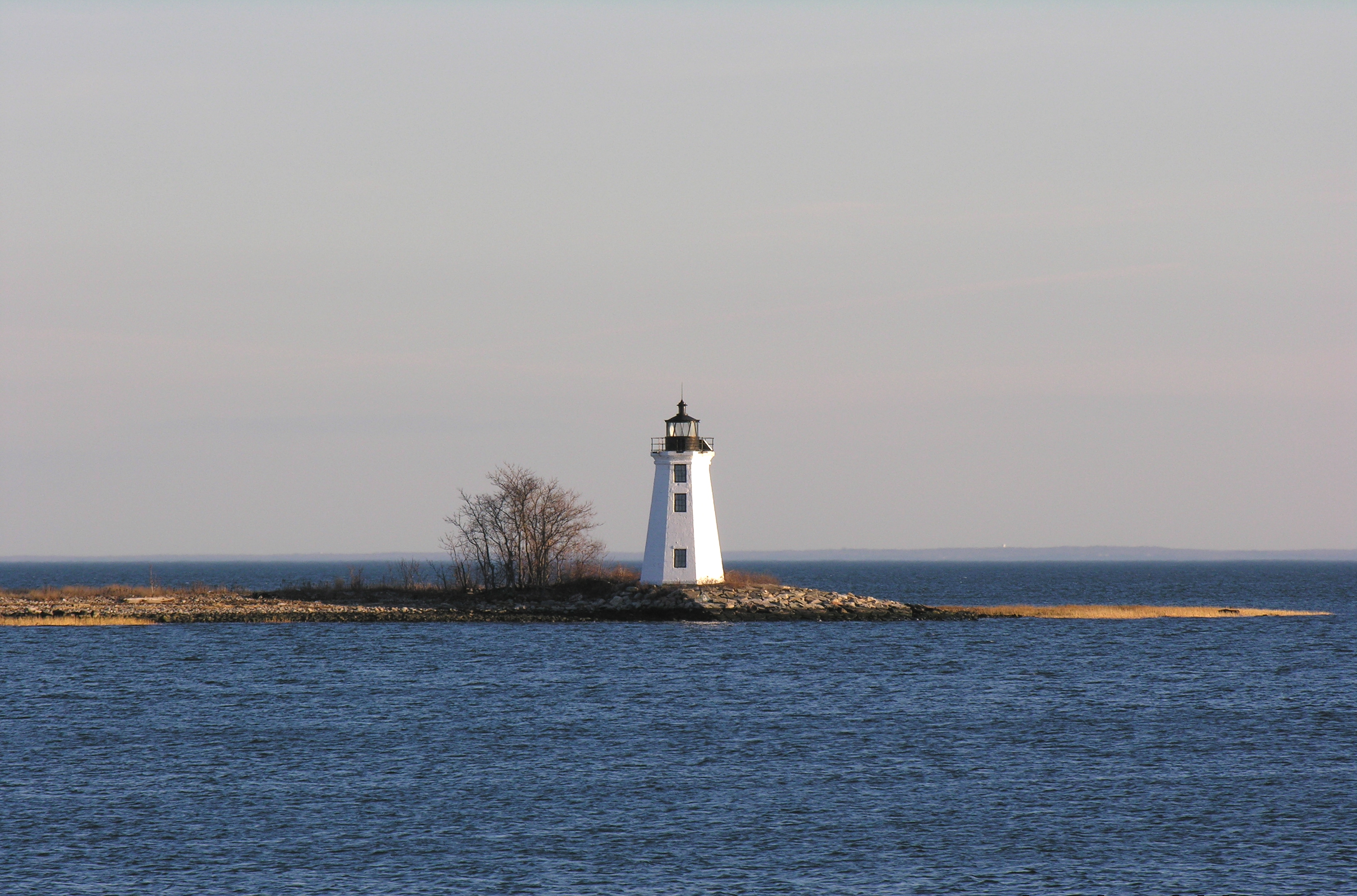 John M. O'Brien, Bridgeport CT Black Rock Saint Mary's by the Sea